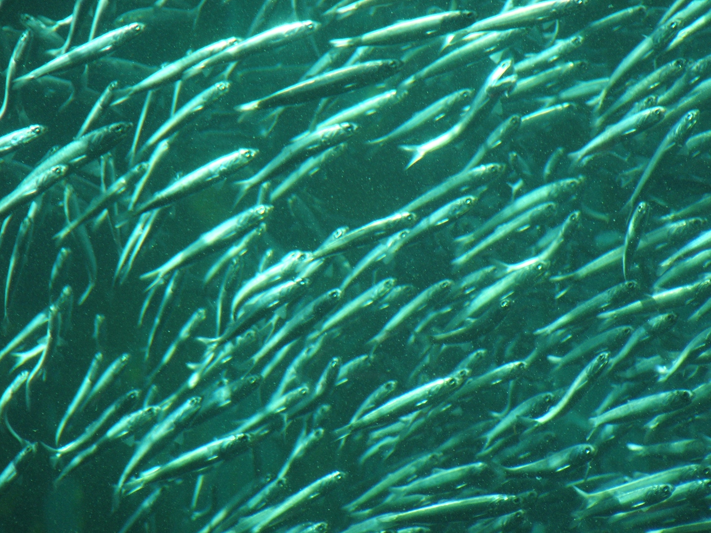 Monterey Bay Aquarium